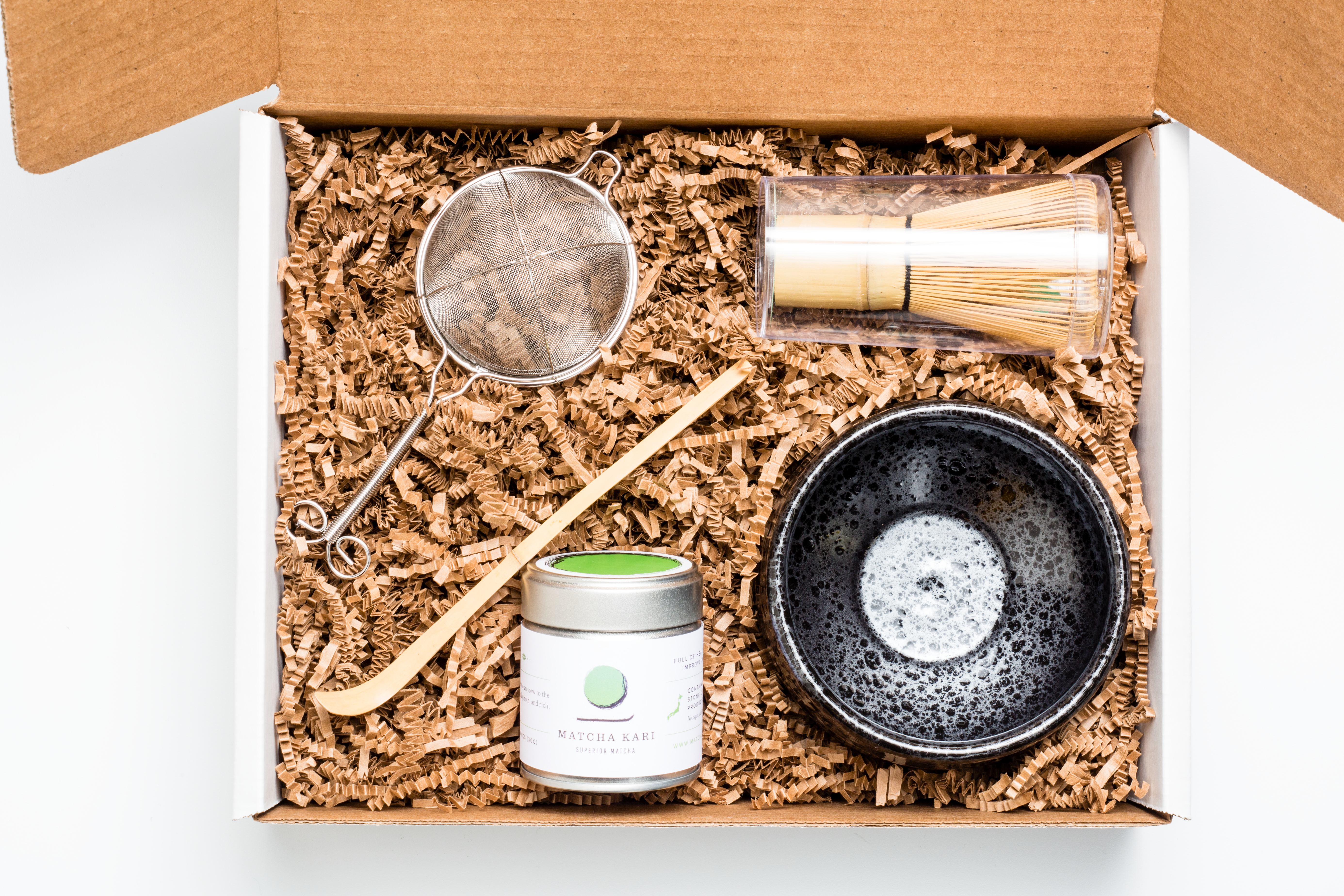 16 November 2016- Matcha Kari's Starter Kit with Tea in packaging is photographed in Omaha, Nebraska.